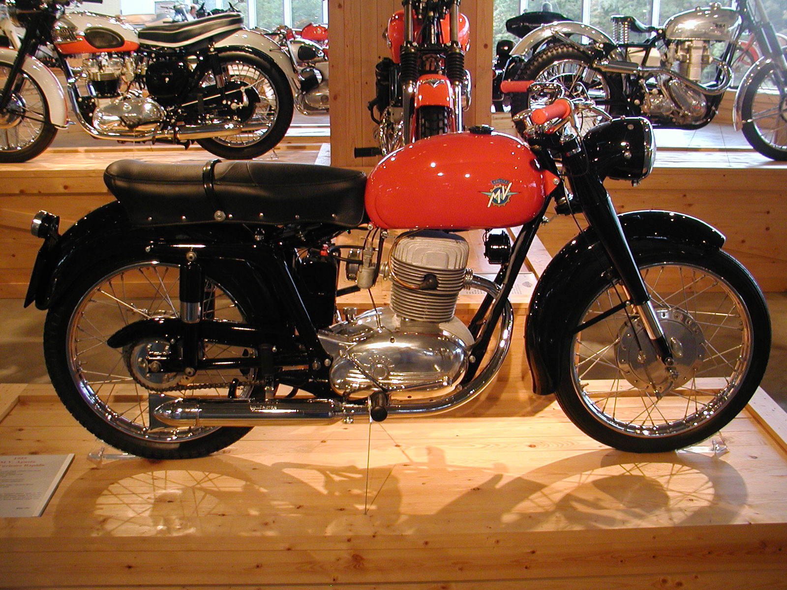 Barber Motorcycle Museum - Oct 22 2006 (517) 1955 MV Agusta 125 Turismo Rapido / More description is here